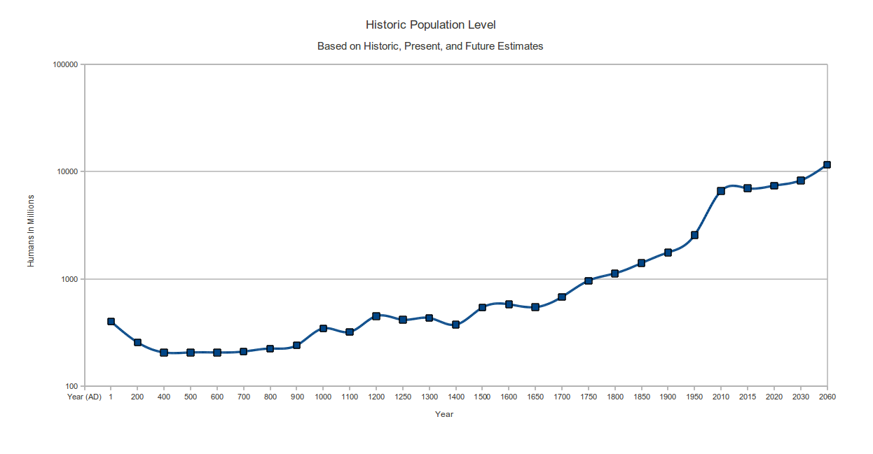 A logarithmic graph produced from Historic Data from Census bureau and estimates created from current growth rate. Graph Table Year (AD) Population (million) 1 400 200 256 400 206 500 206 600 206 700 210 800 224 900 240 1000 345 1100 320 1200 450 1250 416 1300 432 1400 374 1500 540 1600 579 1650 545 1700 679 1750 961 1800 1125 1850 1402 1900 1762 1950 2557 2010 6600 2015 6983.63565768149 2020 7389.57075746067 2030 8273.59939083603 2060 11612.355365964